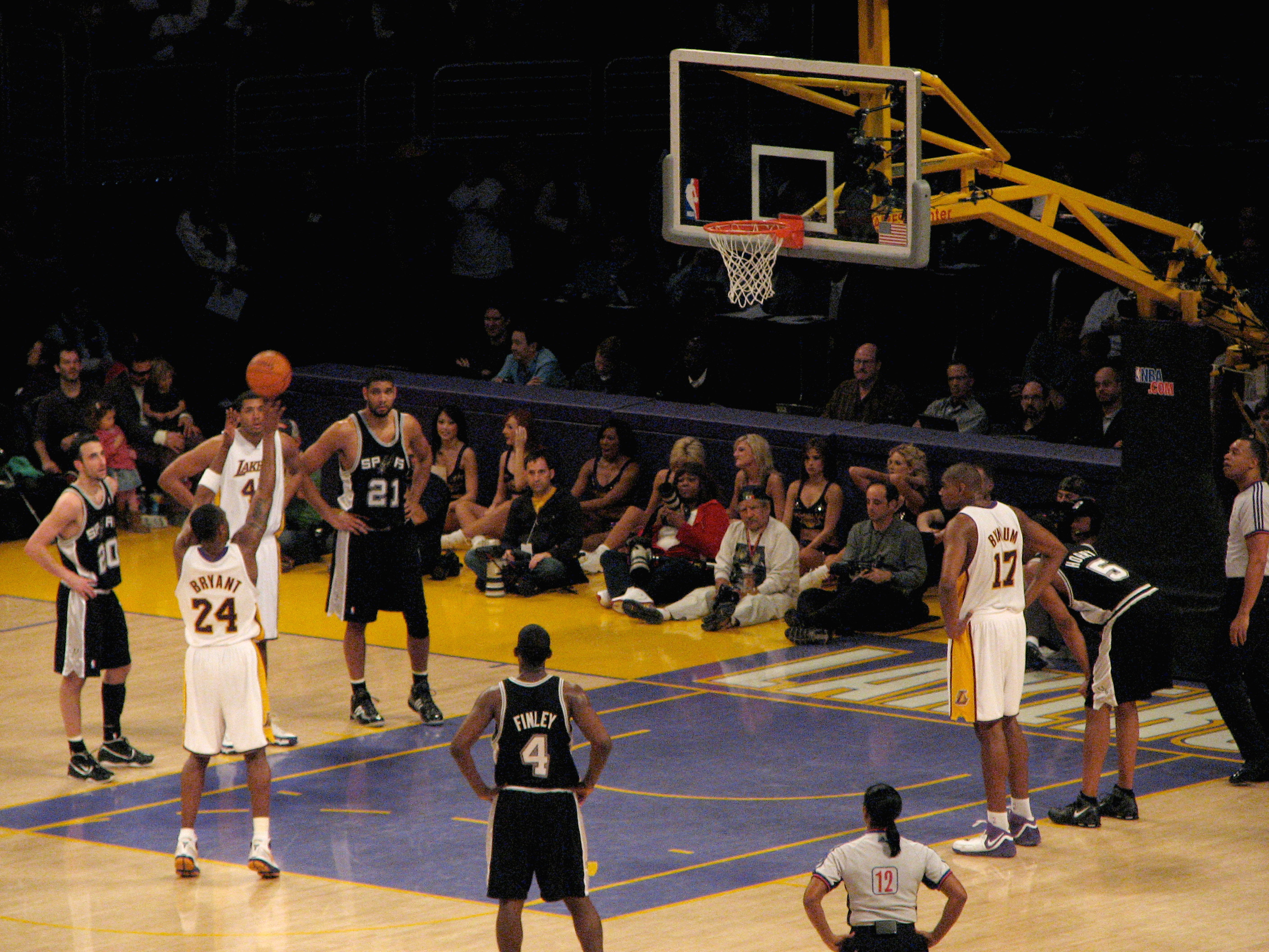 Kobe Bryant attempts to shoot a freethrow vs the San Antonio Spurs in 2007